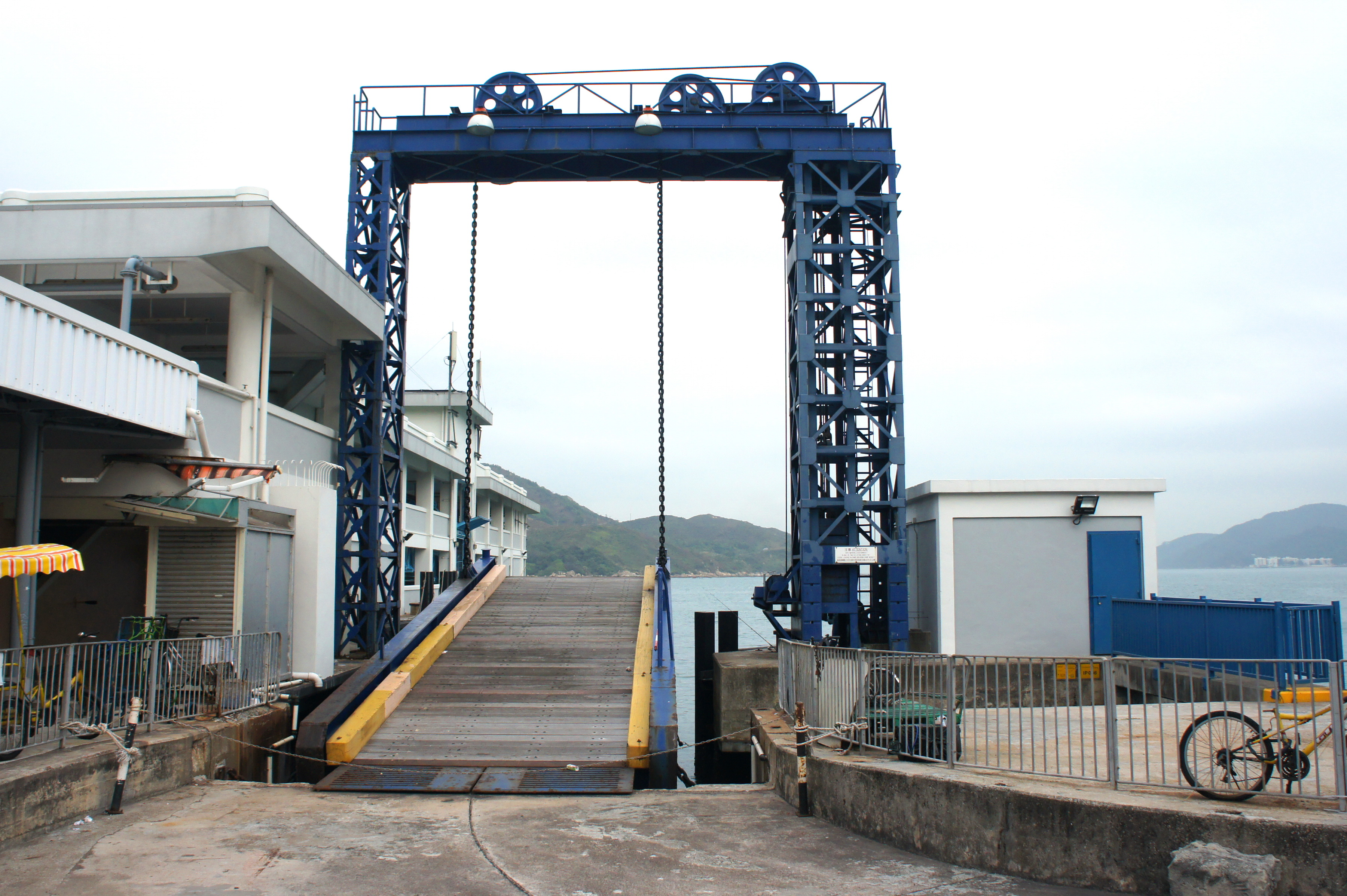 Mui Wo Vehicle Ferry Pier, Mui Wo, Lantau Island, Hong Kong.